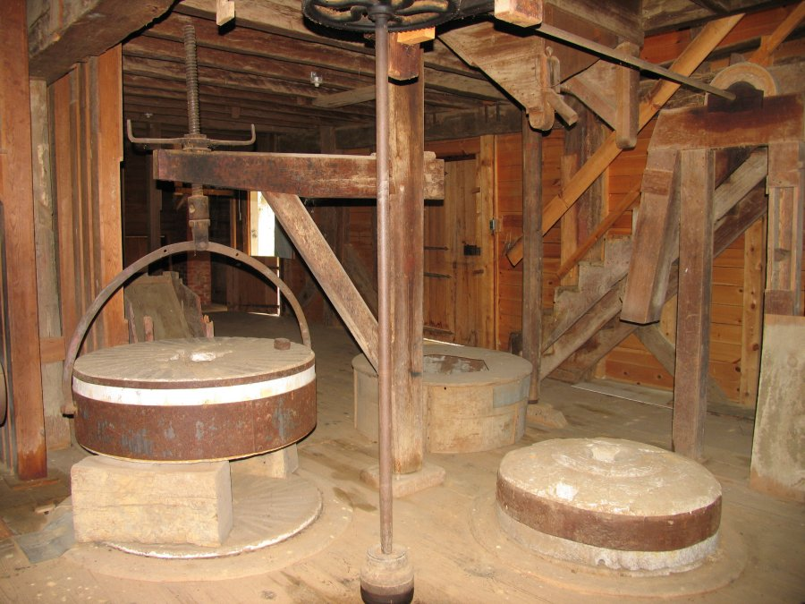 French Quartz and granite buhr mill stones.